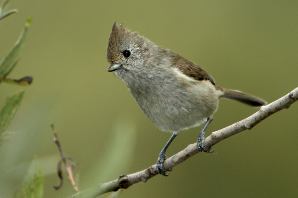 An Oak Titmouse in San Luis Obispo, California, USA.